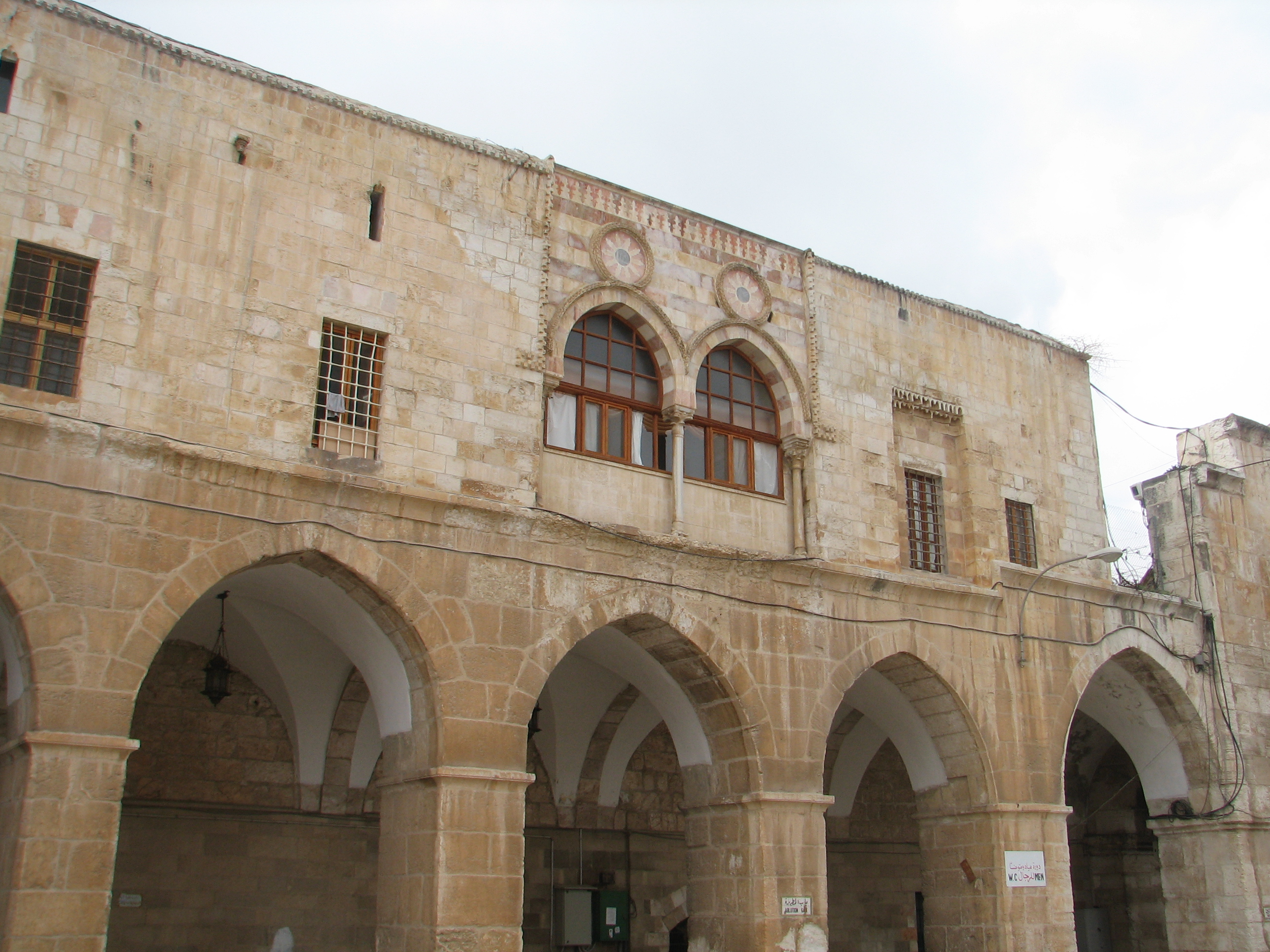 Al-Aqsa Mosque